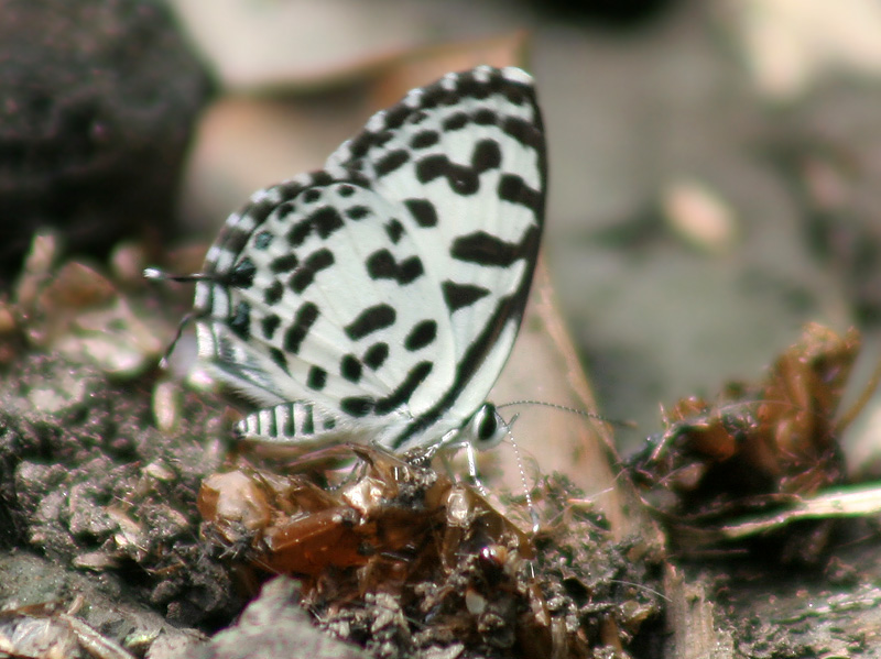 Common Peirrot Castalius rosimon in Kolkata, West Bengal, India.